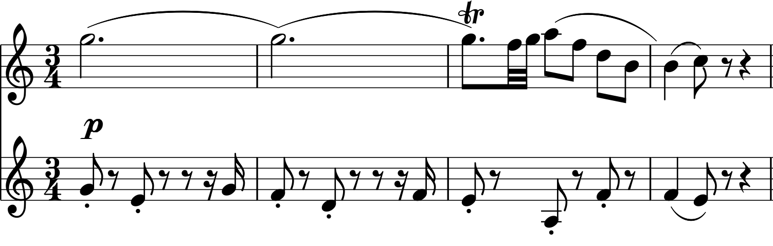 Joseph Haydn, Symphony No. 54, second movement, bar 1-4